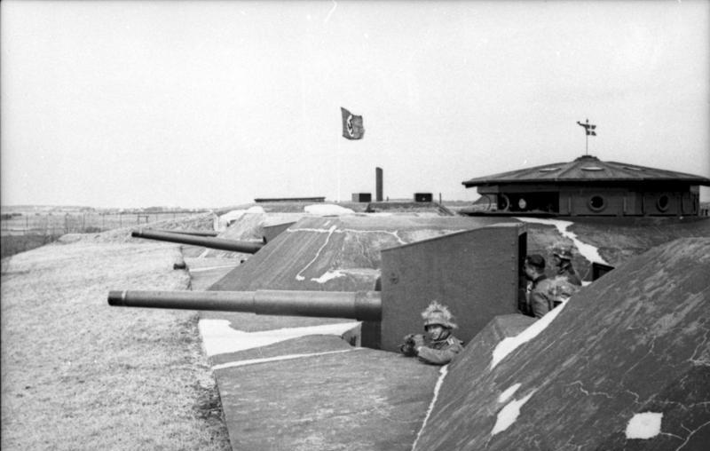 Denmark, 1940 ... German parachuters have occupied the Danish Masnedoe Fort